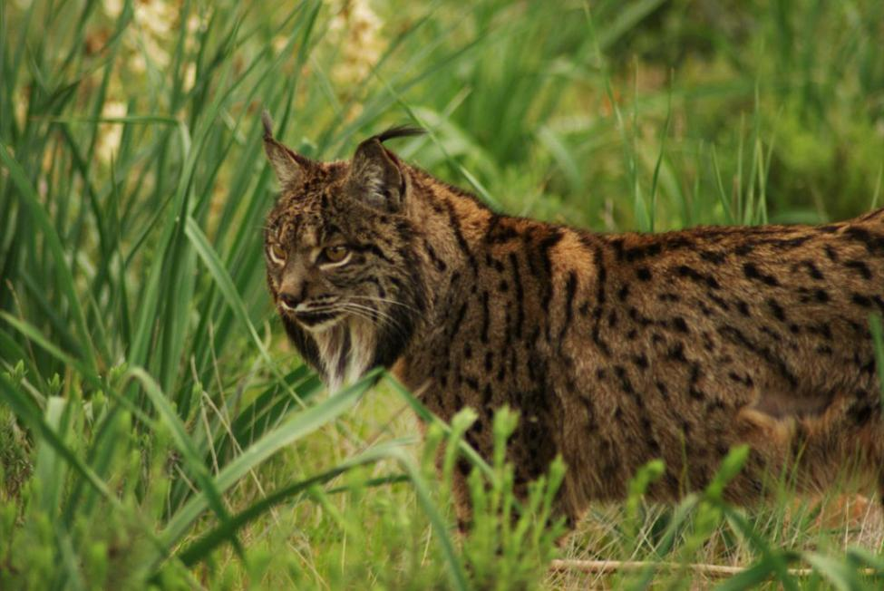 Iberian Lynx adult from the Program Ex-situ Conservation